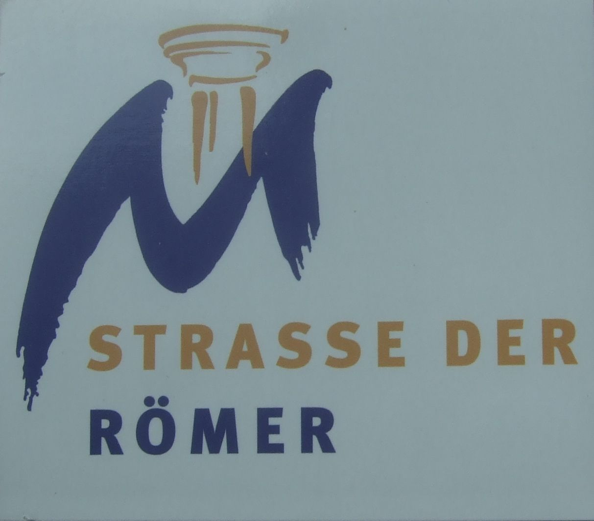 Konz, Hinweis Straße der Römer